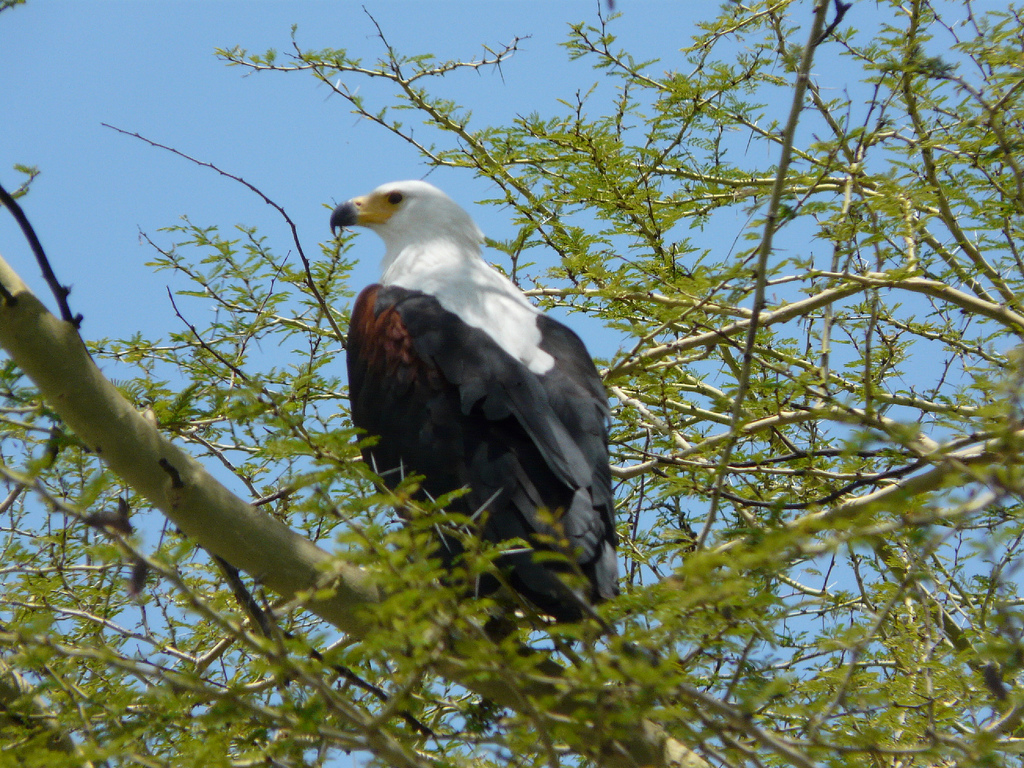 An African Fish Eagle perching in a tree in Machinga, Malawi.